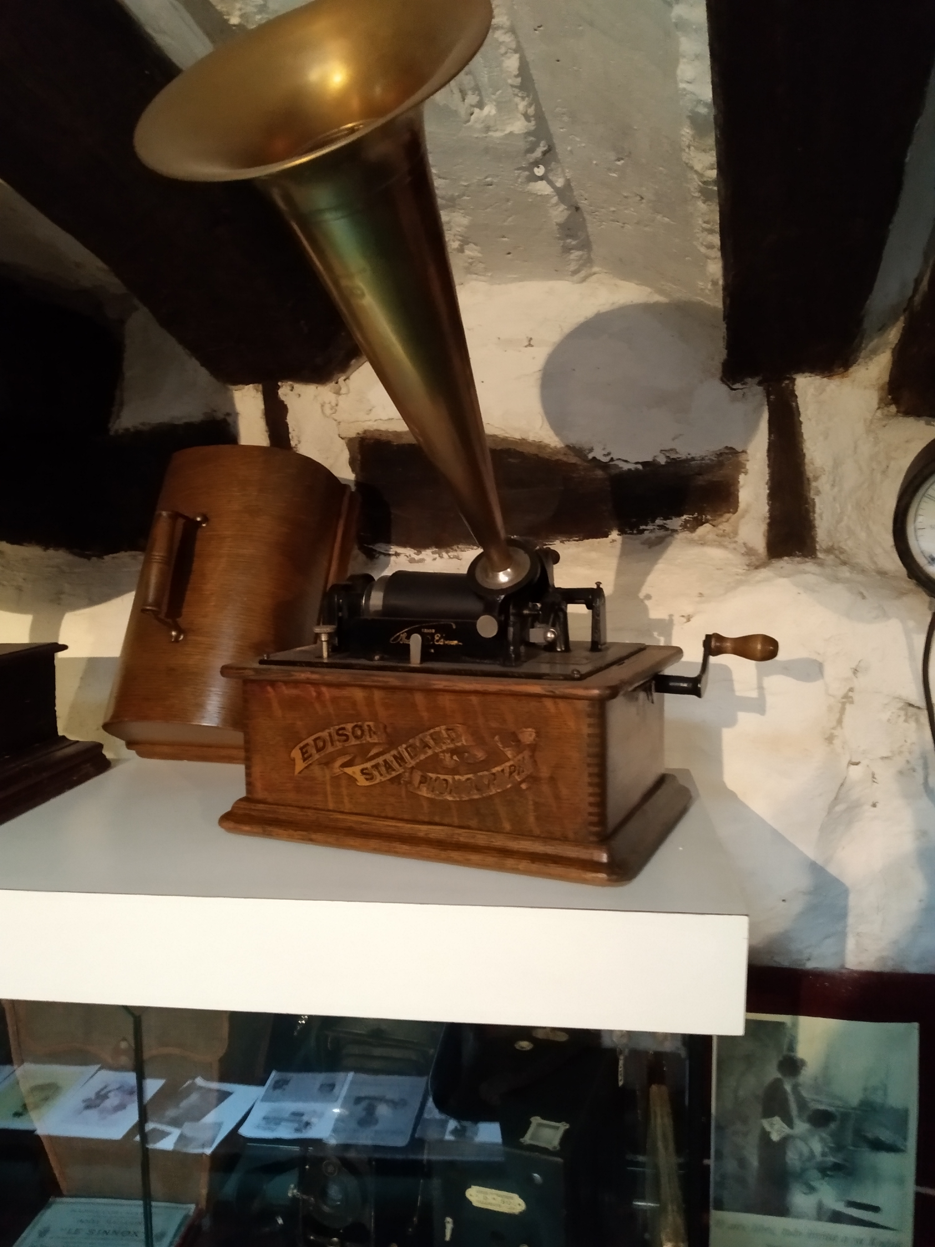 Edisin phonograph at the Ethnographic Museum of the Kingdom of Navarre